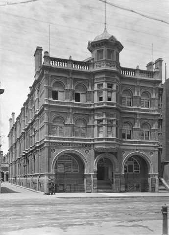 Brookman Building, Grenfell Street, Adelaide, south side. 1907 'Acre 142 / Grenfell Street, south side / Brookman Building / Dec. 5th, 1907 / West corner of Commercial Place. Fontage:16.5 yards.' The Brookman Building was designed by Alfred Wells, and built for Sir George Brookman. It was completed in 1896.